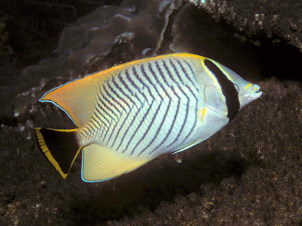 Chaetodon trifascialis, Chevron butterflyfish. Underwater photograph, Pemuteran, Bali, Indonesia.